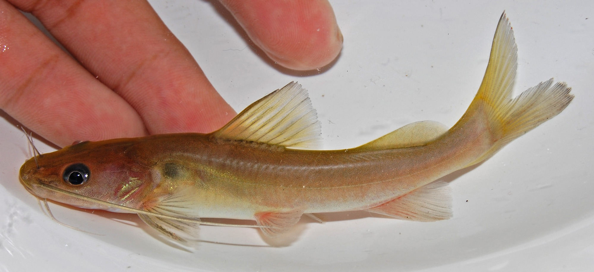 Hemibagrus planiceps (77mm SL). From Cikupret (small stream) of Cisadane drainage at Darmaga (6°34’S 106°43’E), Bogor, West Java, Indonesia